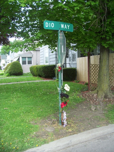 The Dio Way in Cortland